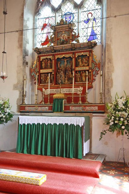 St Peter ad Vincula, Coveney - Sanctuary